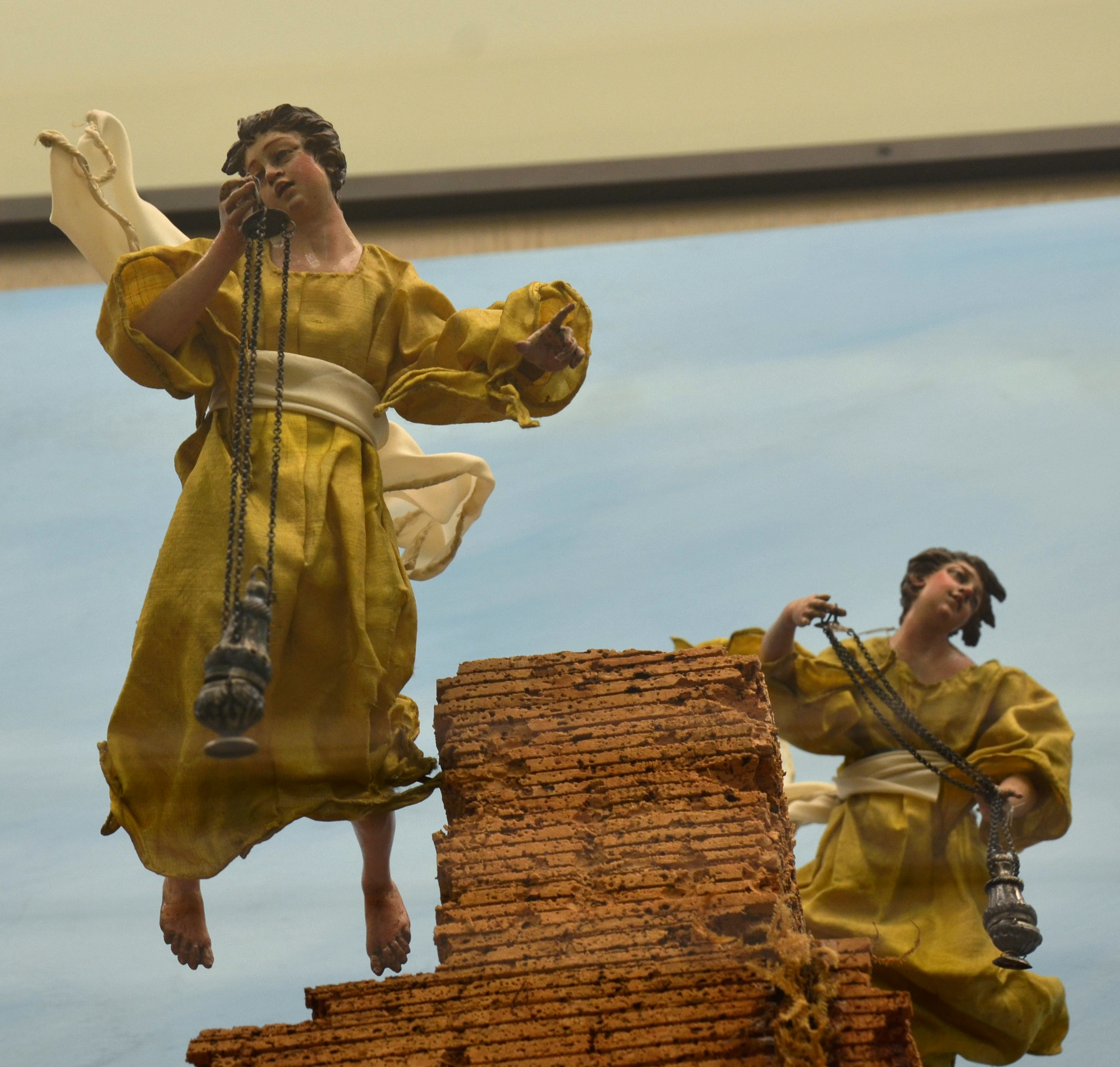 Detail of a nativity scene from Naples ( 18th century ), exposed in the Musée des Beaux Arts de Rouen, in France.